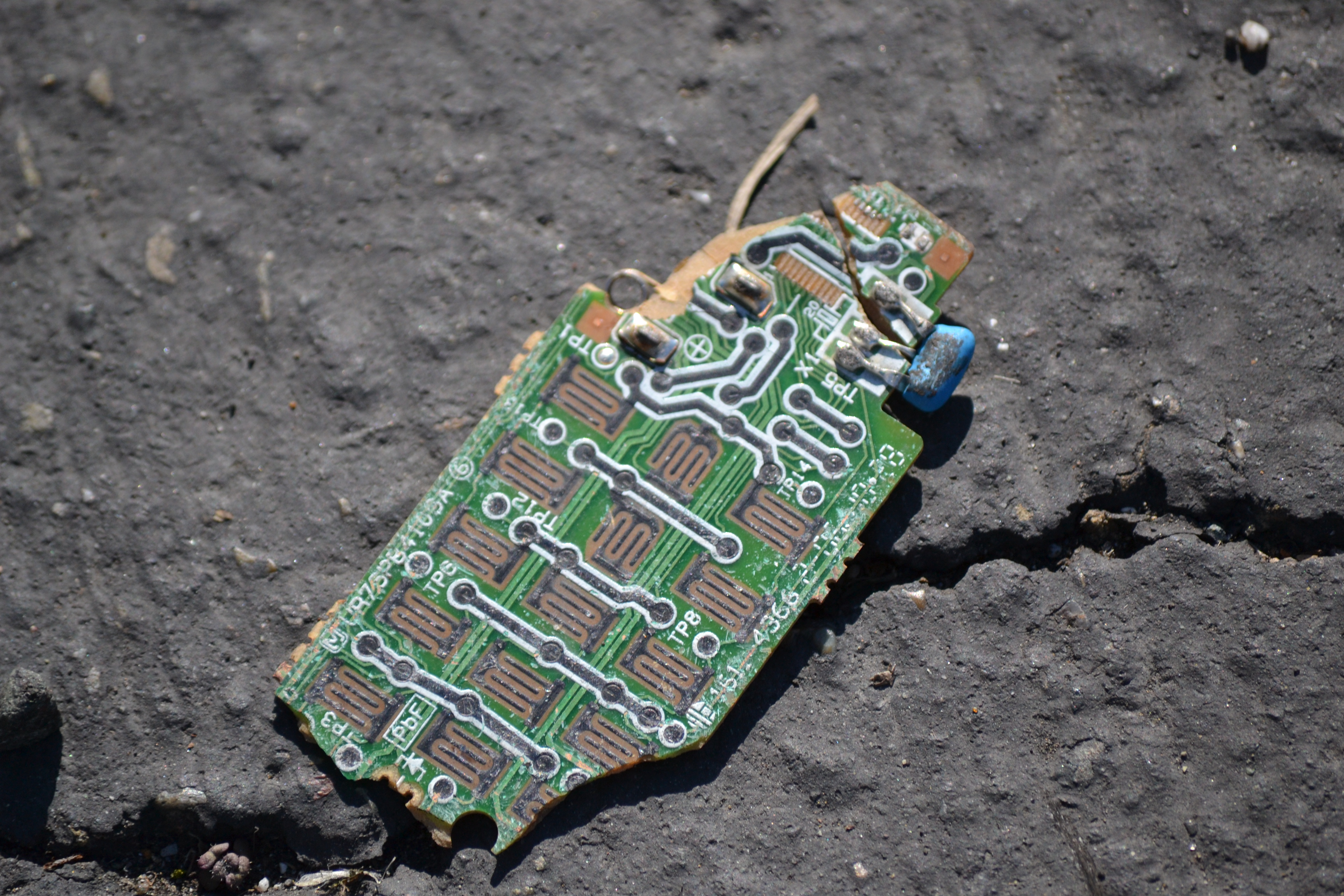 Broken circuit board